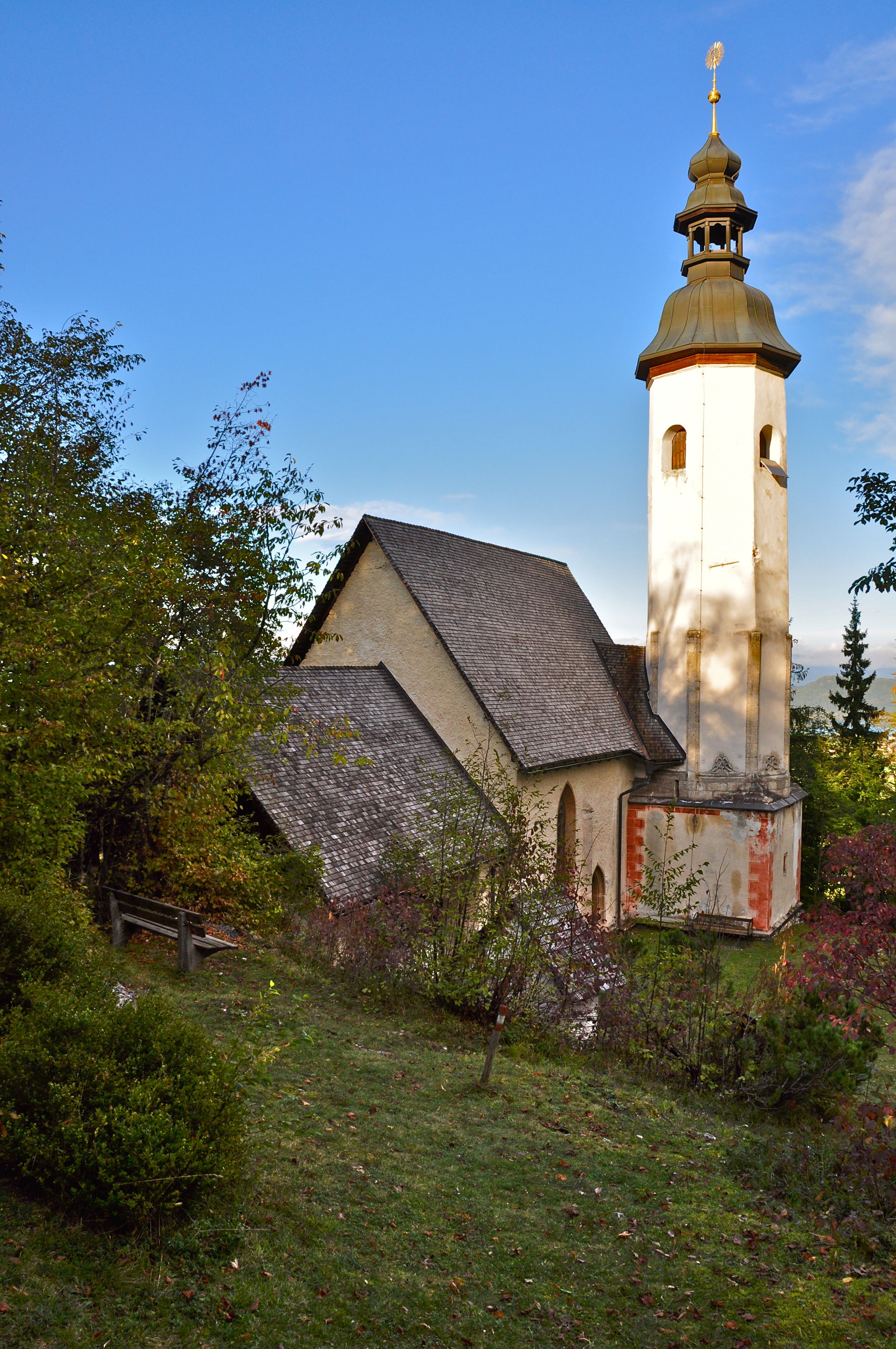 Subsidiary church Saint Cantianus on Kanzianiberg, Goritschach, market town Finkenstein am Faaker See, district Villach Land, Carinthia, Austria, EU